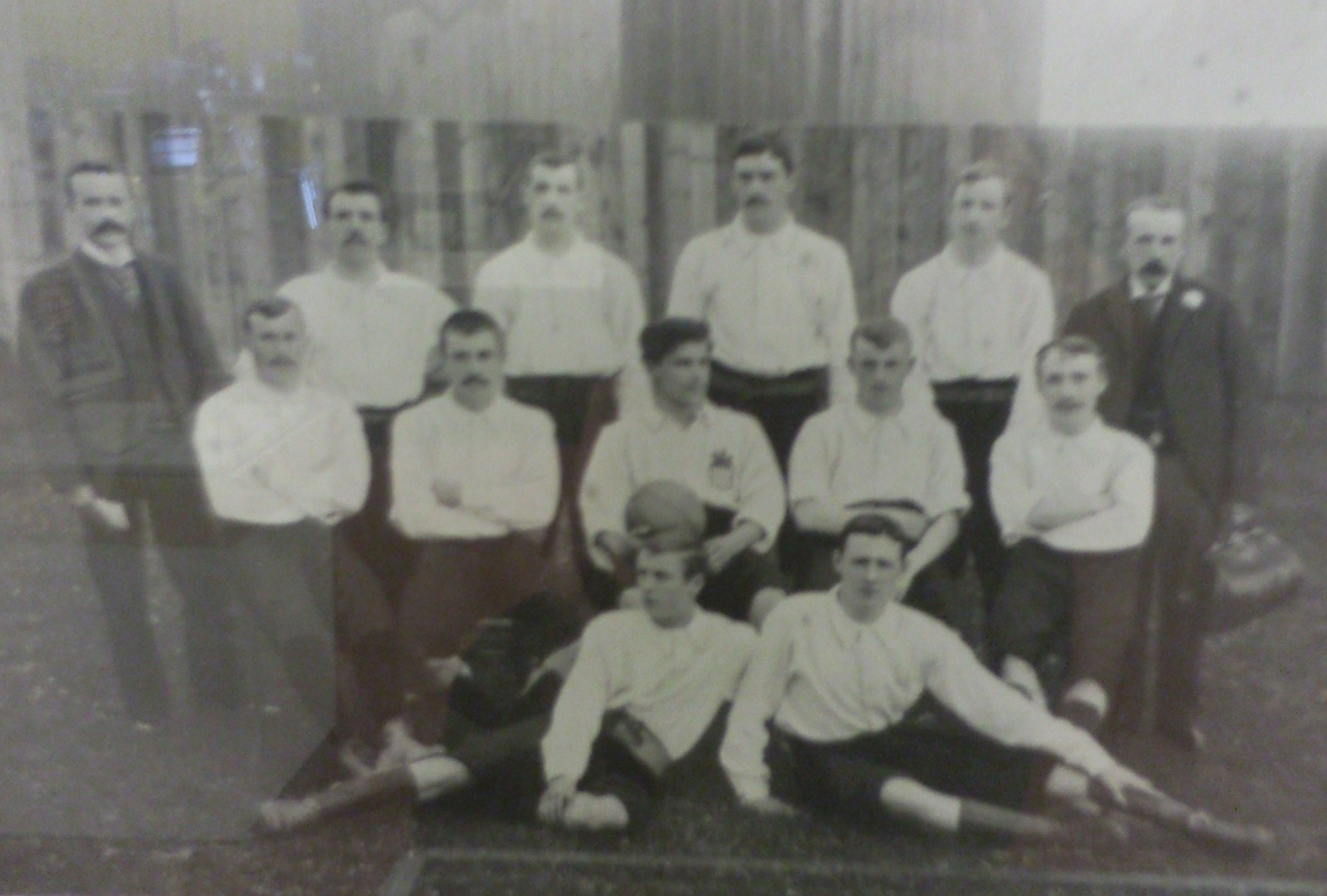 Photograph of the Leicester City F.C. team of 1892, displayed in an exhibition in Coalville in January 2010. Image believed to be in the PD due to age.